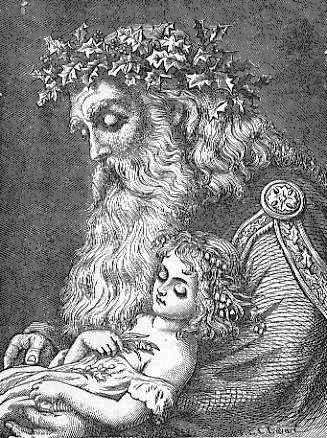 Father Time and Baby New Year from Frolic & Fun, 1897